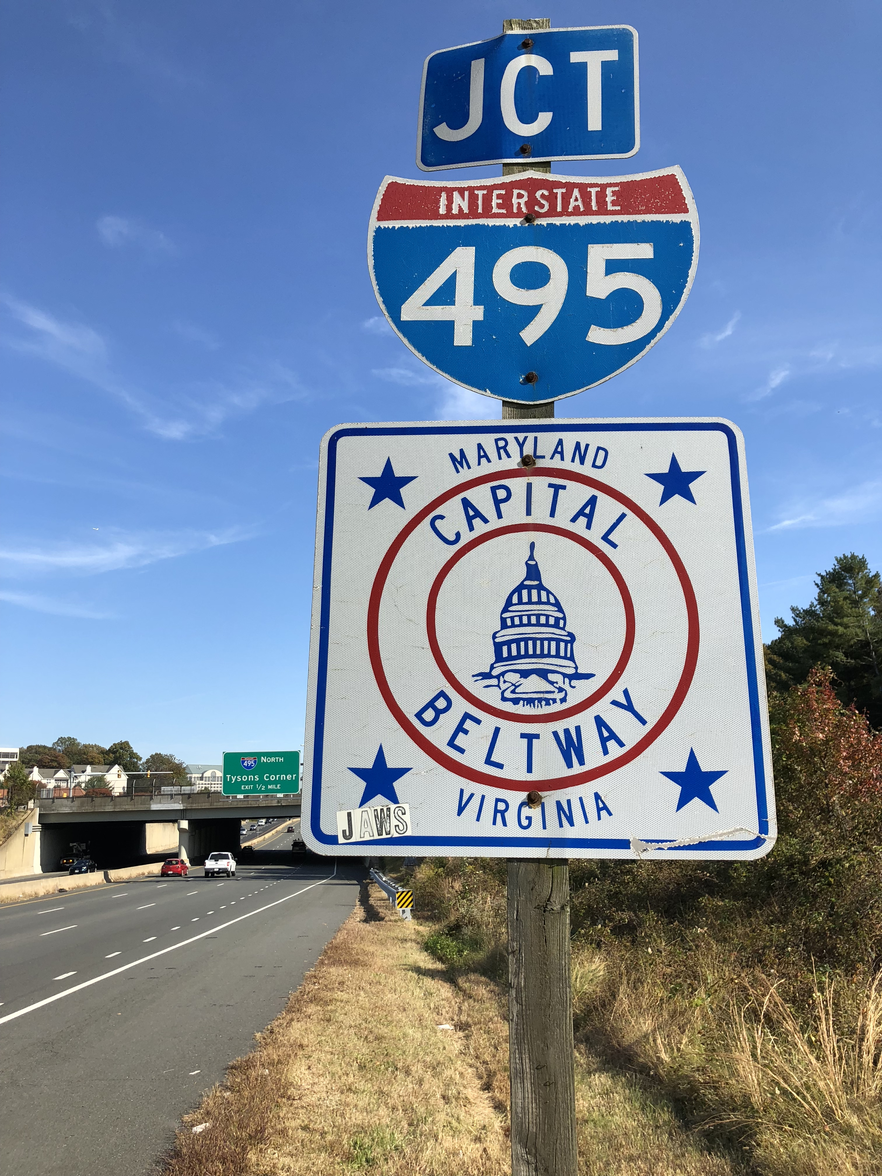 Signs for Interstate 495 and the Capital Beltway along eastbound U.S. Route 50 (Arlington Boulevard) just west of Virginia State Route 650 (Gallows Road) in Woodburn, Fairfax County, Virginia